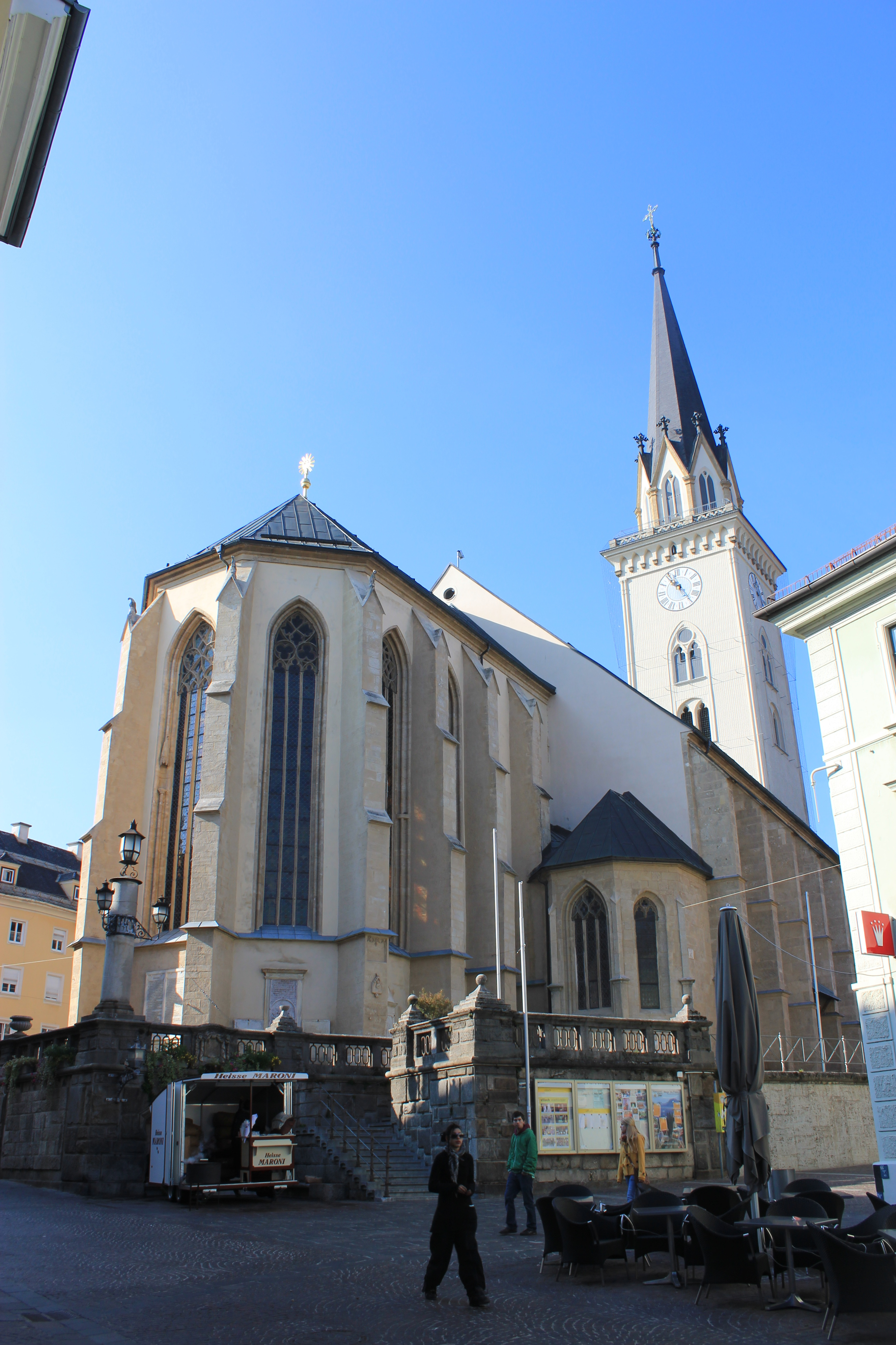 Parish church St. Jakob in Villach